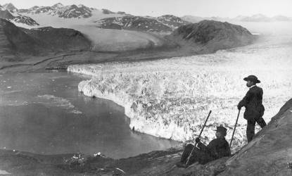 The Muir Glacier filled the entire eastern arm of Glacier Bay in 1893